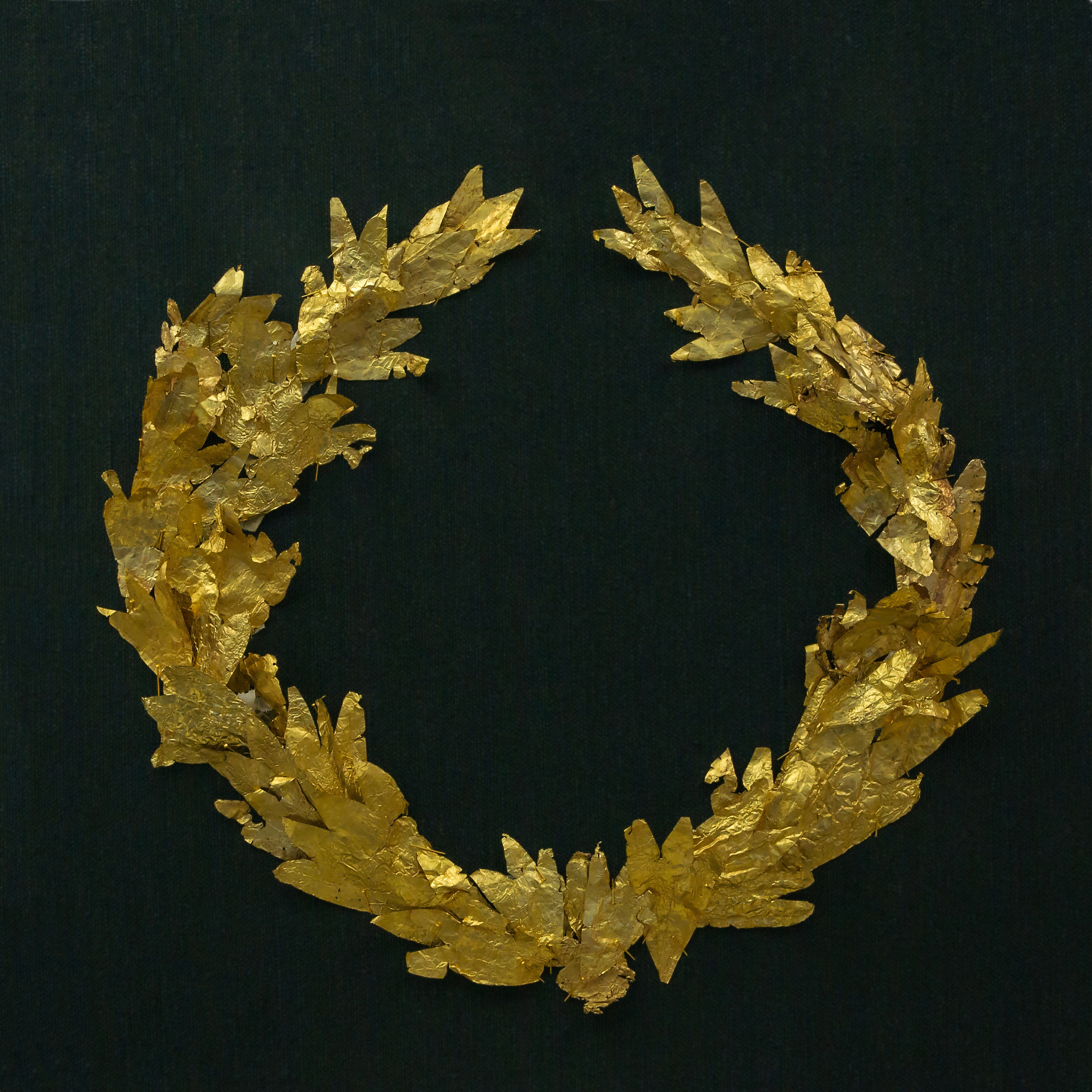 A golden laurel wreath, hellenistic era.